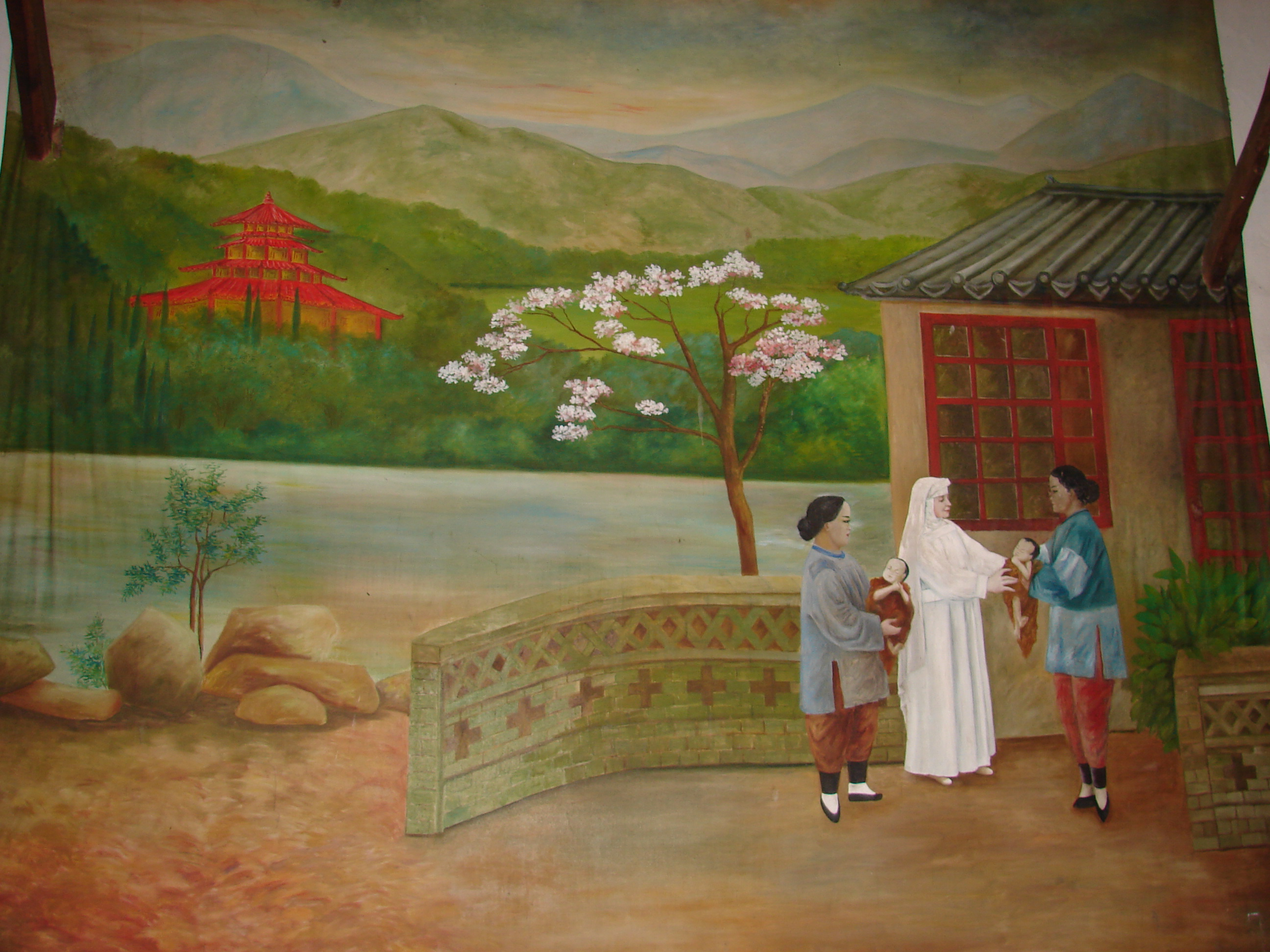 Paiting of the Holy Amandina from Shakkebroek on her Missionary work in Taiyuan China.